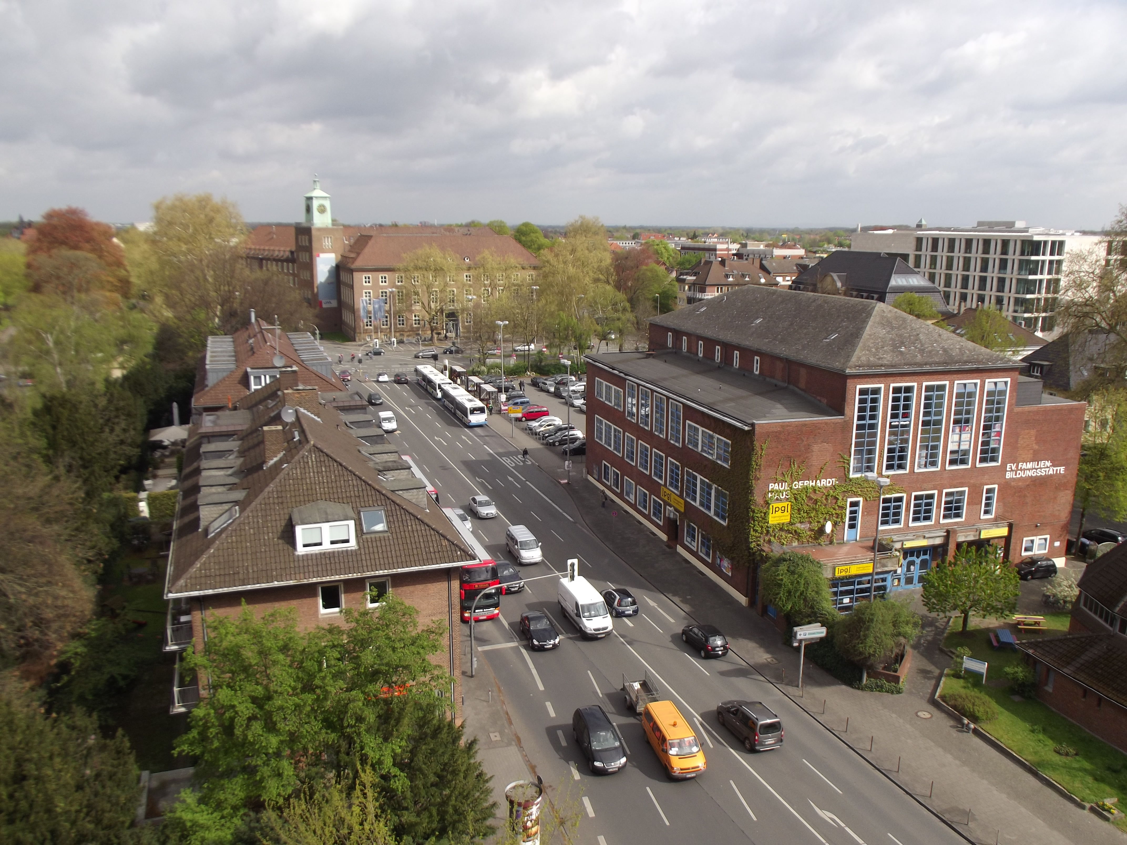 A house which serves as a meeting point in the heart of Münster, a traditionally catholic city in Westphalia